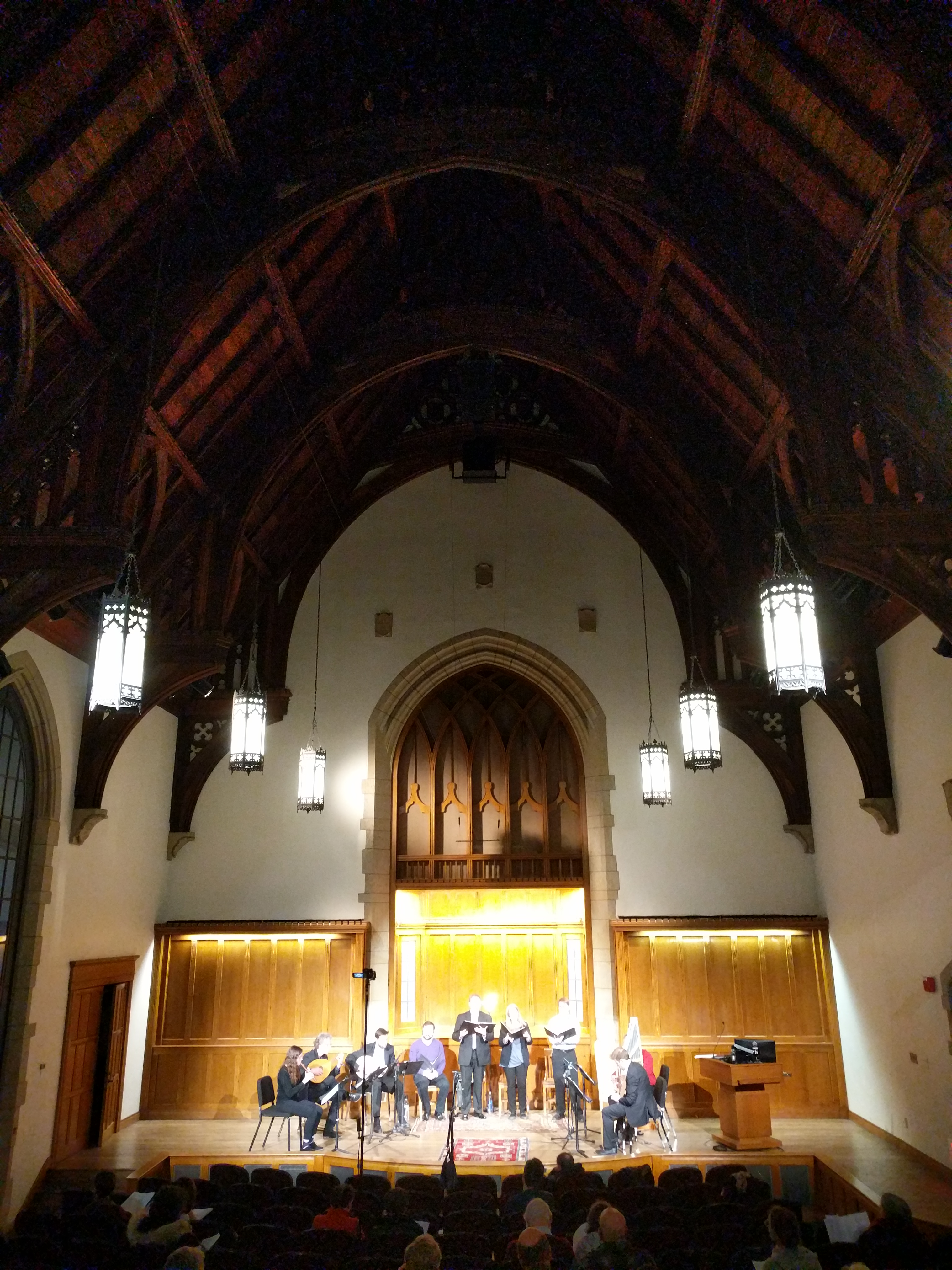 The Elm City Consort performs musical works by 15th-century composer Guillaume Du Fay in Sudler Recital Hall at the Yale School of Music